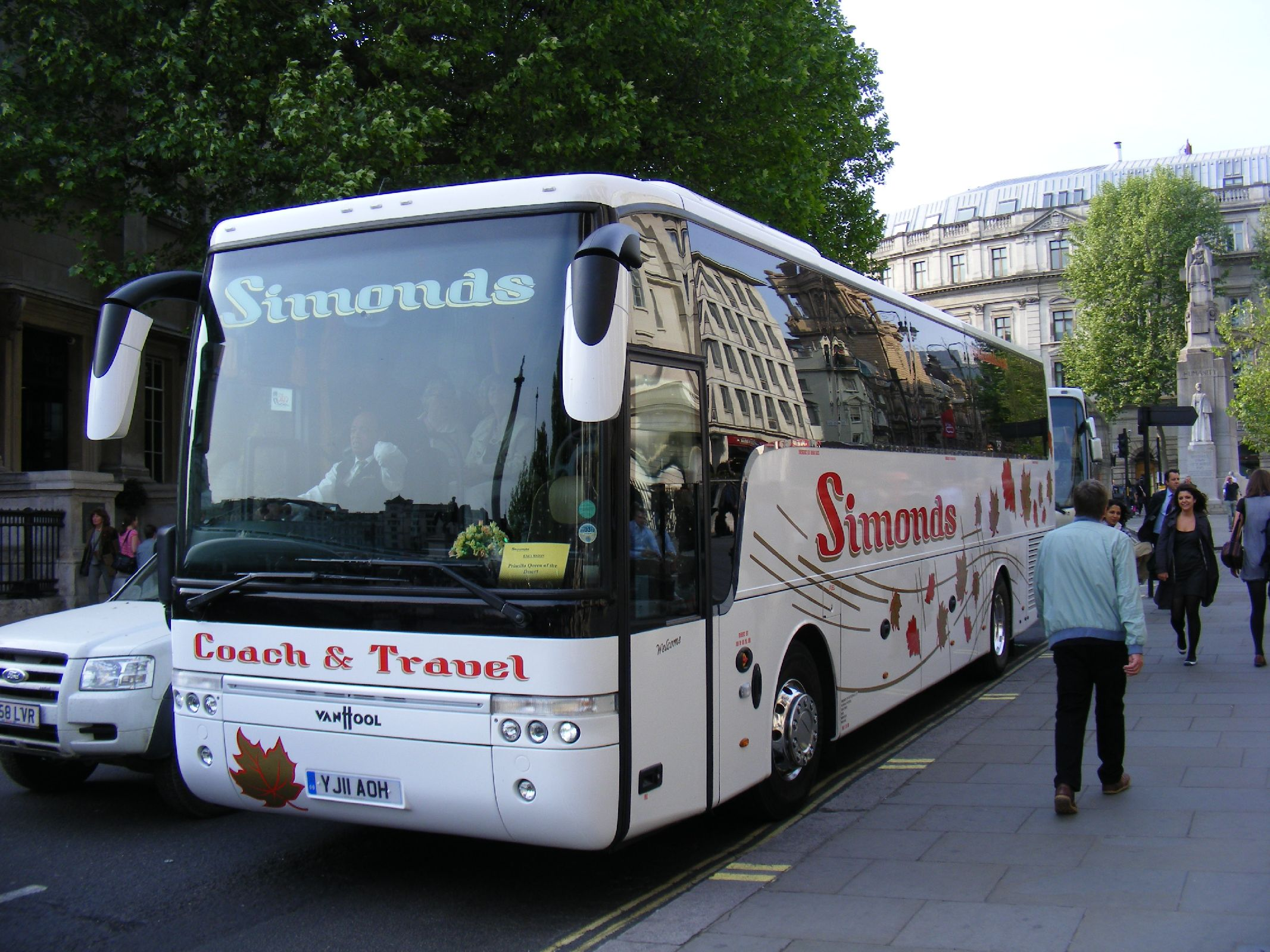 YJ11 AOH, Van Hool, Simonds , Botesdale, Norfolk.. May 2011